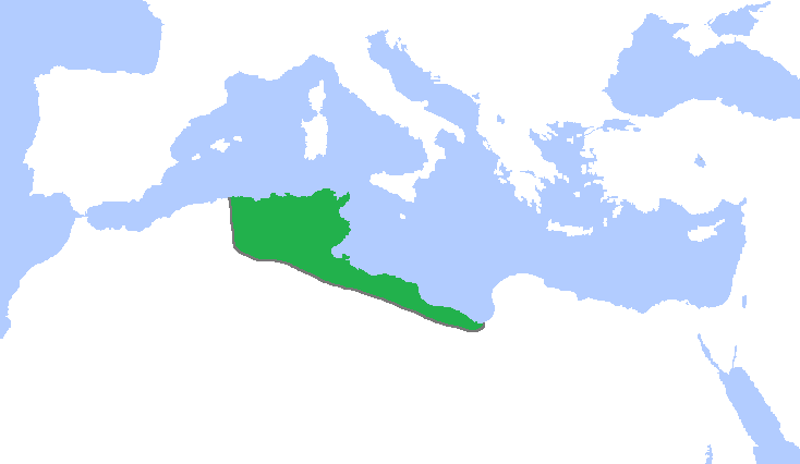 Locator map of the lands ruled by the Hafsid dynasty, c. 1300-1500. (Partially based on Atlas of World History (2007) - The World 1200-1300, 1300-1400 and 1400-1500 map)